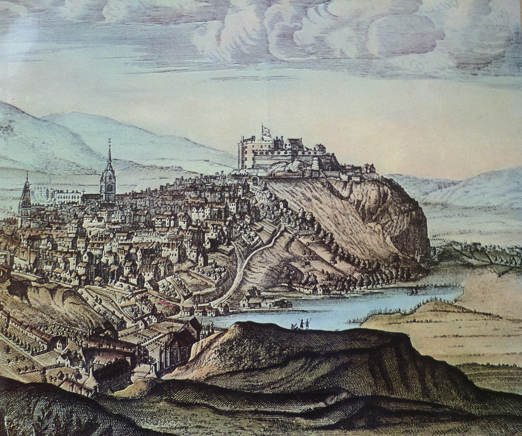 Detail of an engraving (with colour added) by John Slezer, Theatrum Scotiae 1693